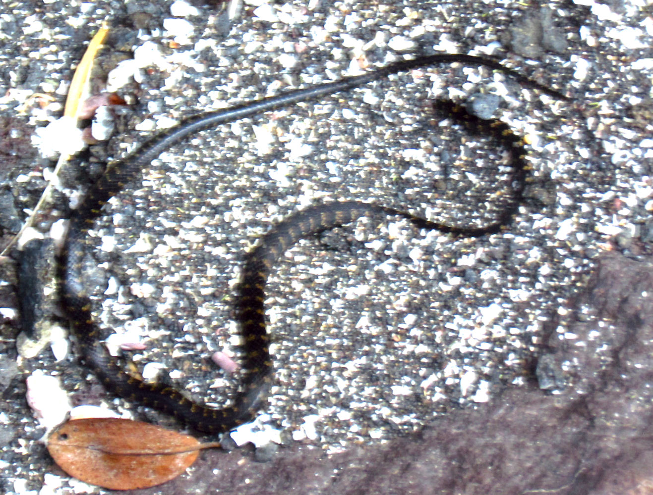 Fernandina Snake (Pseudalsophis dorsalis occidentalis), Fernandina Island, Galapagos, Ecuador